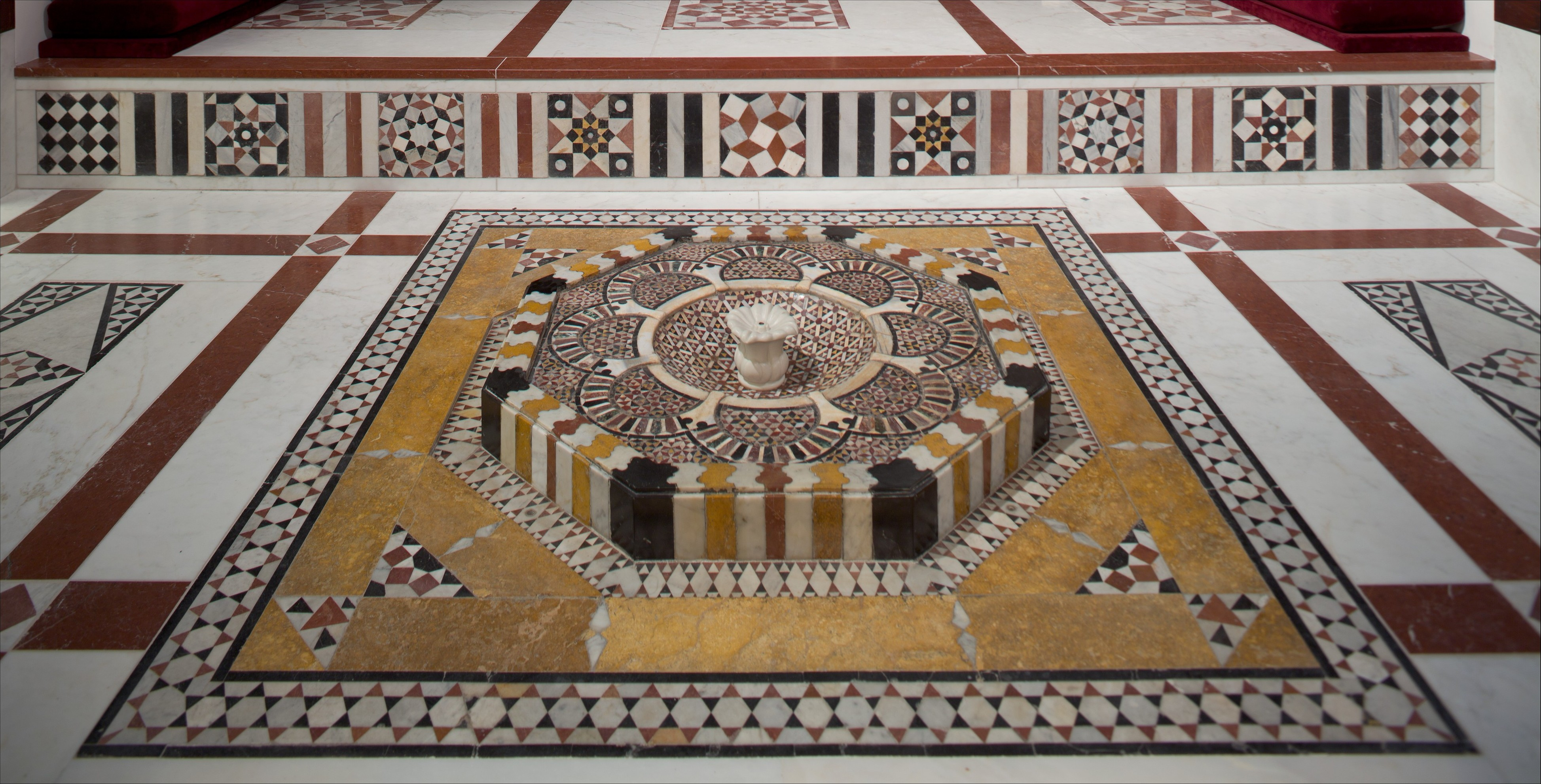 Period room; Wood